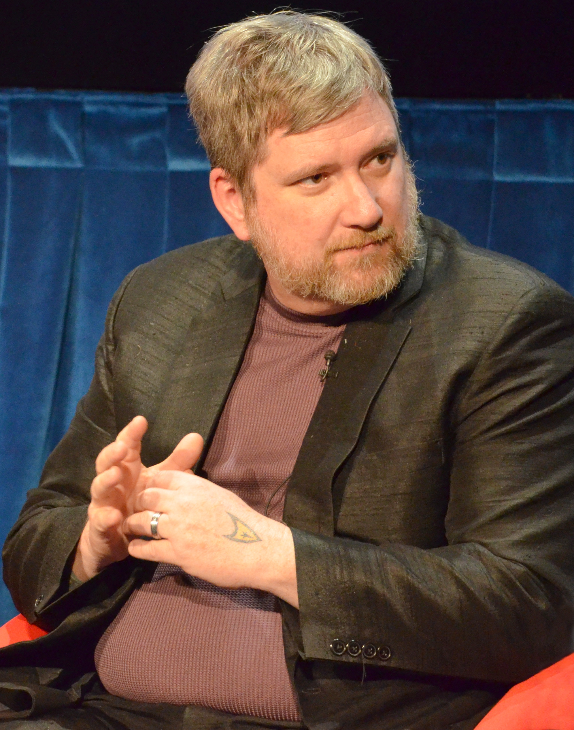 Gregory Poirier at Missing Paley Center in Los Angeles (2012)